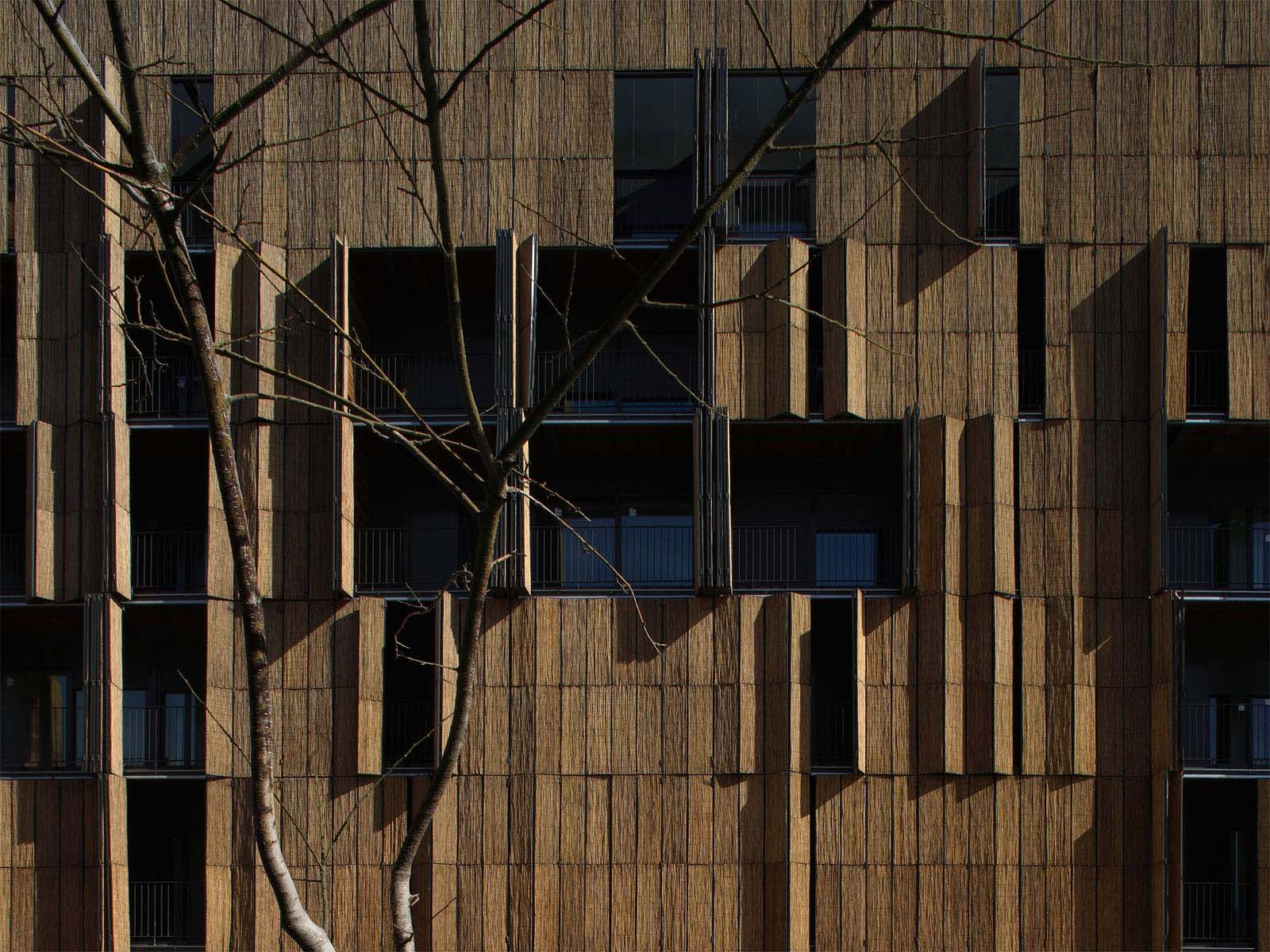 Detail of the façade of Edificio Bambú (literally "Bamboo Building") in Madrid (Spain).